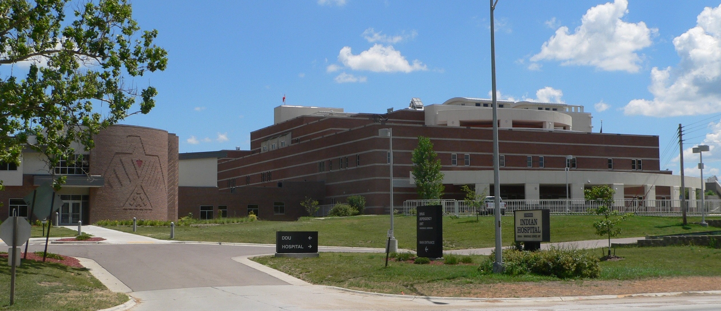 Indian Hospital in Winnebago, Nebraska; seen from the west.